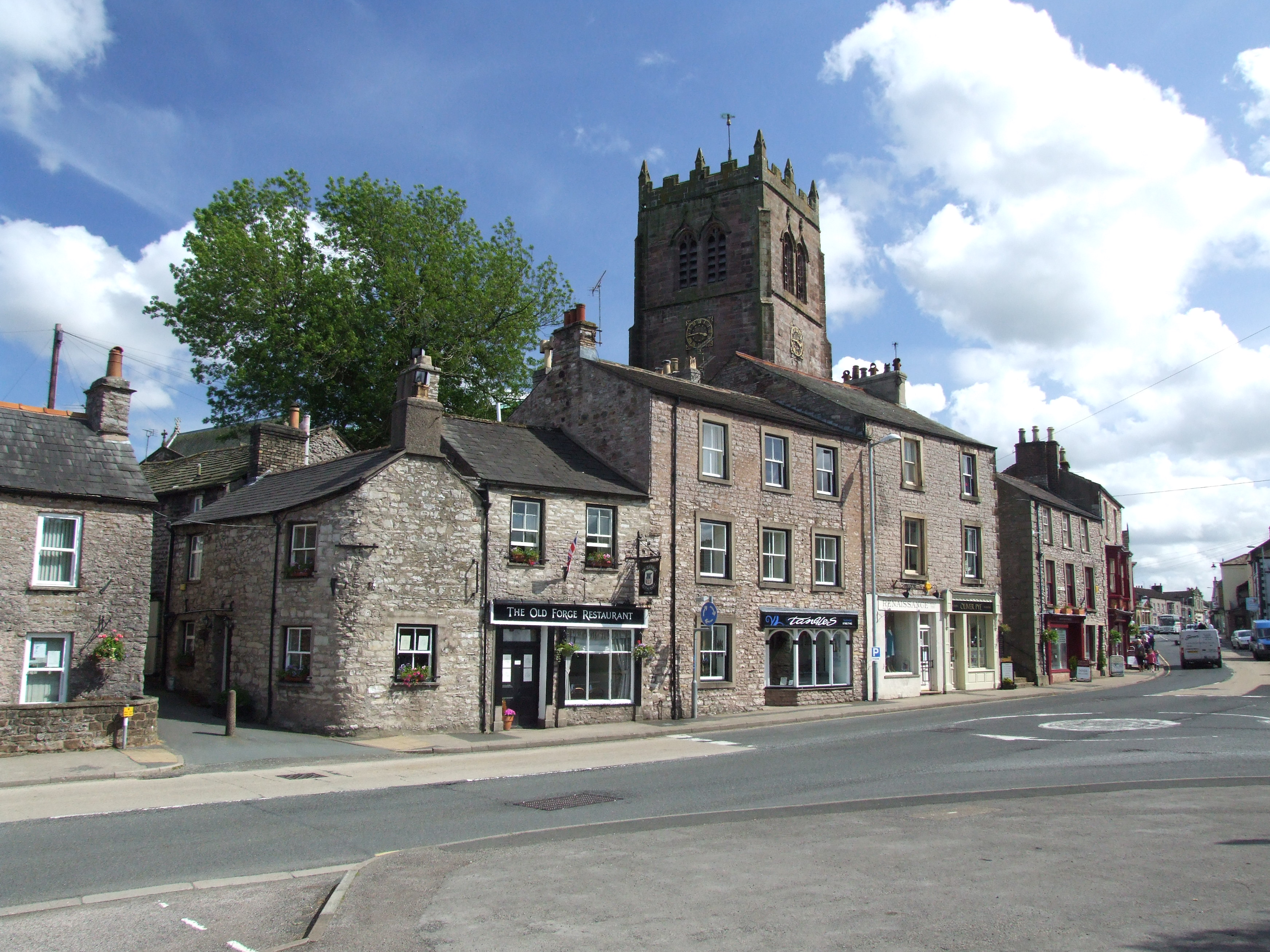 Kirkby Stephen: Off the Market Square stands the parish church which is shared between the Roman Catholics and the Anglicans. A view over North Road and the Old Forge.